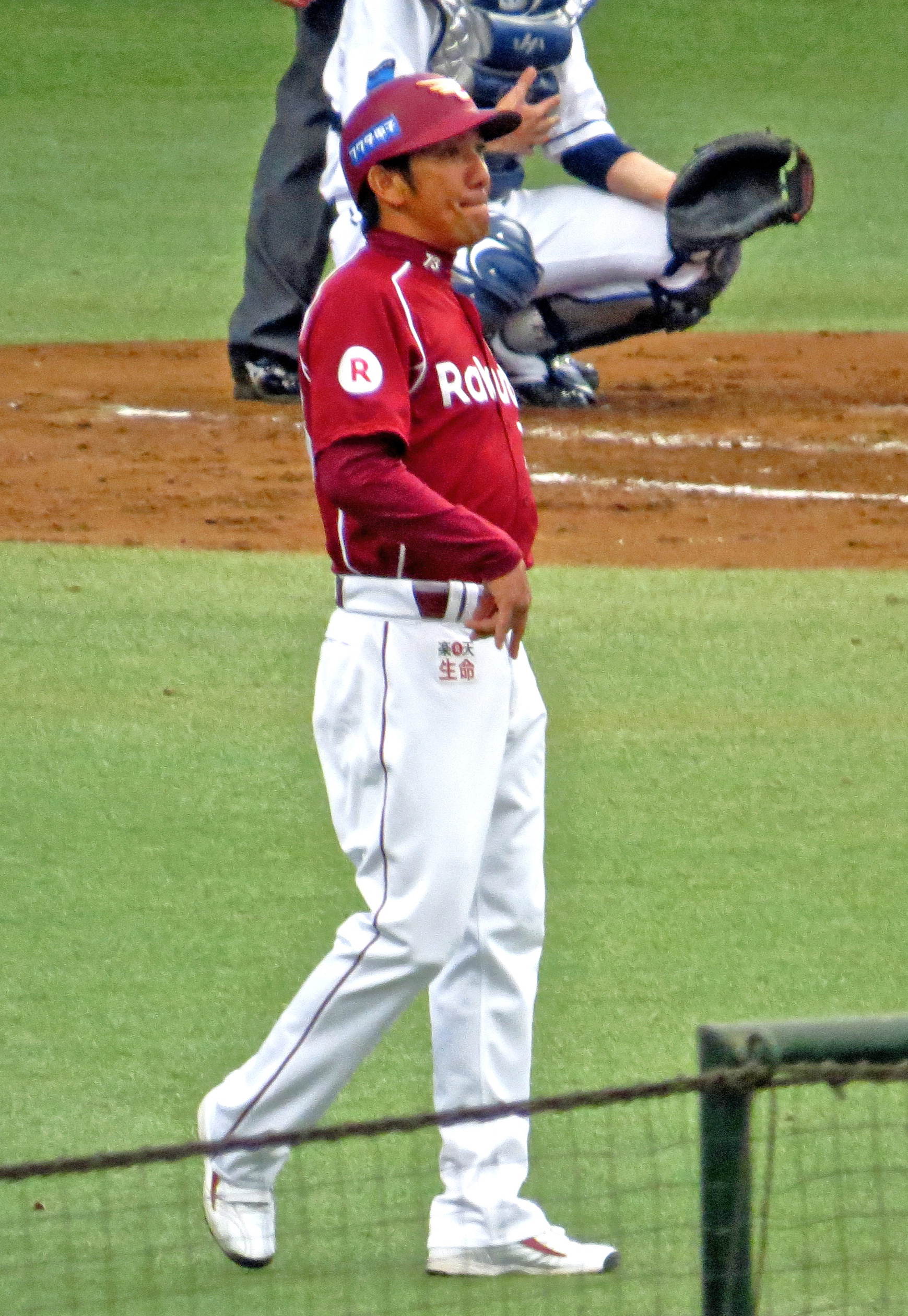 Yasuo Nagaike, coach of the Tohoku Rakuten Golden Eagles, at Seibu Dome.